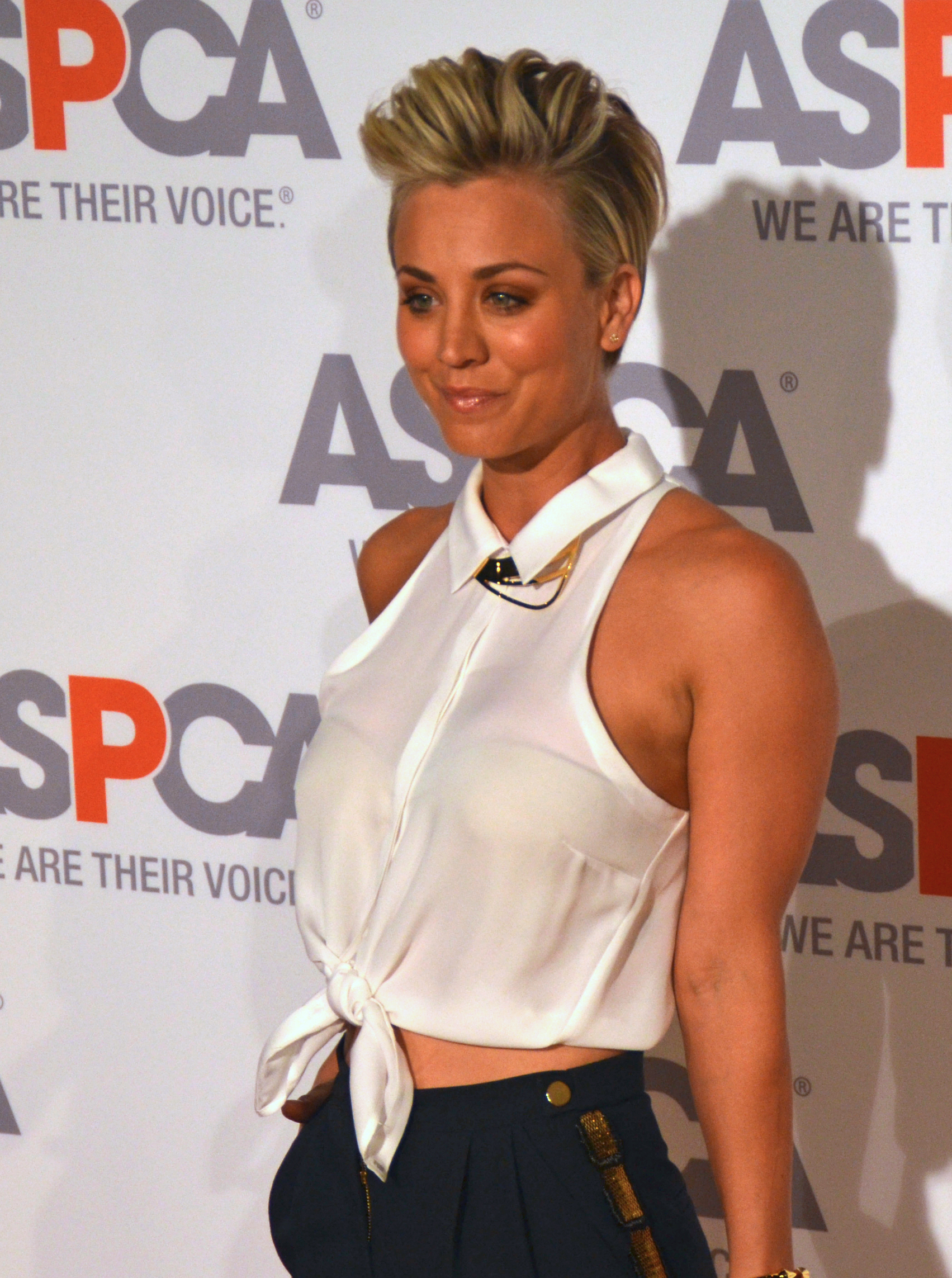 Actress Kaley Cuoco at the 2014 ASPCA Compassion Awards on October 22, 2014